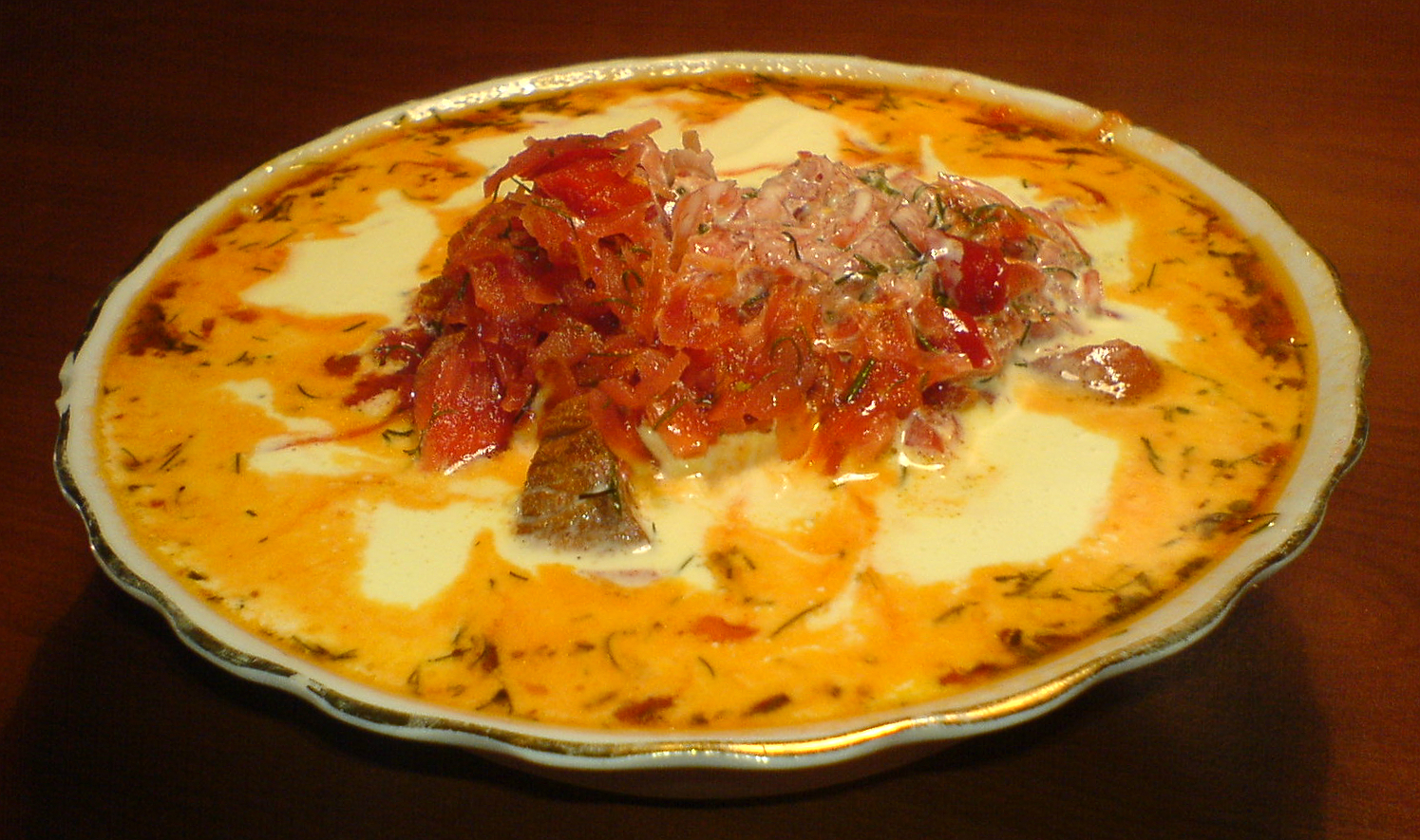 Borscht, typical soup of Ukraine